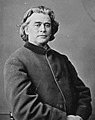 Samuel Fenton Cary